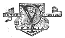 Emblem of DeVries, Ibarra & Co., publishers, Boston, Mass., 1865